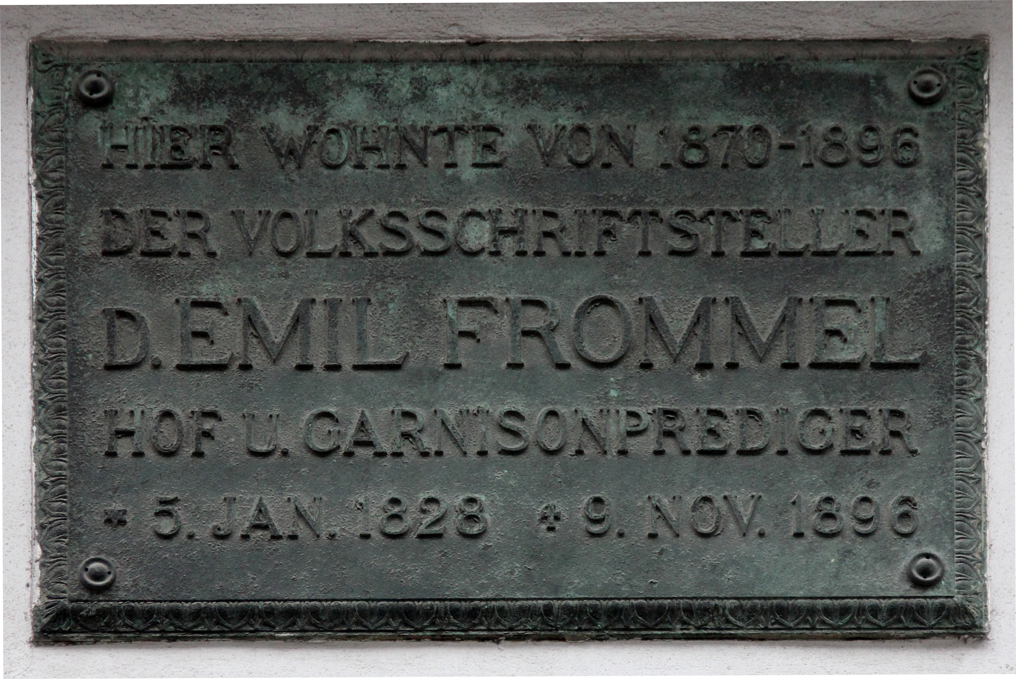 Memorial plaque, Emil Frommel, Anna-Louisa-Karsch-Straße 9, Berlin-Mitte, Germany